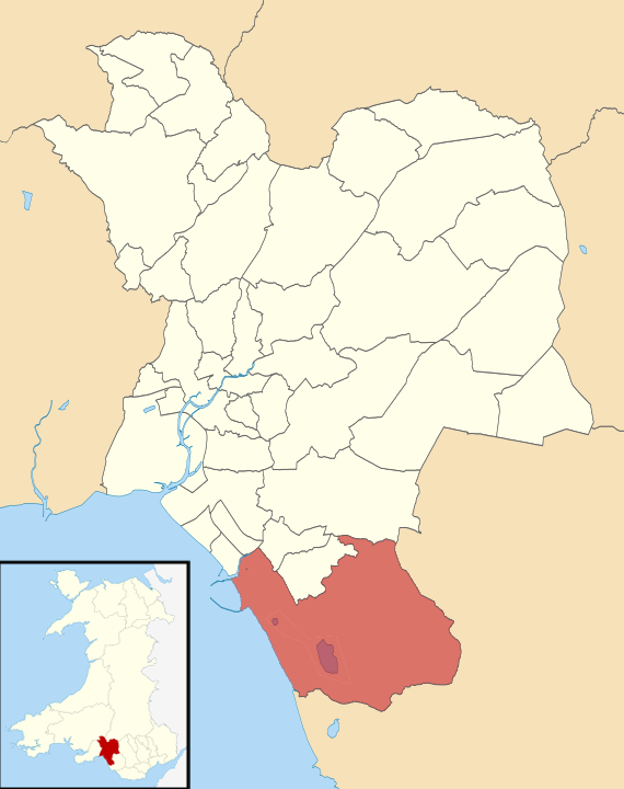 Location map showing electoral ward of Margam within Neath Port Talbot County Borough, Wales